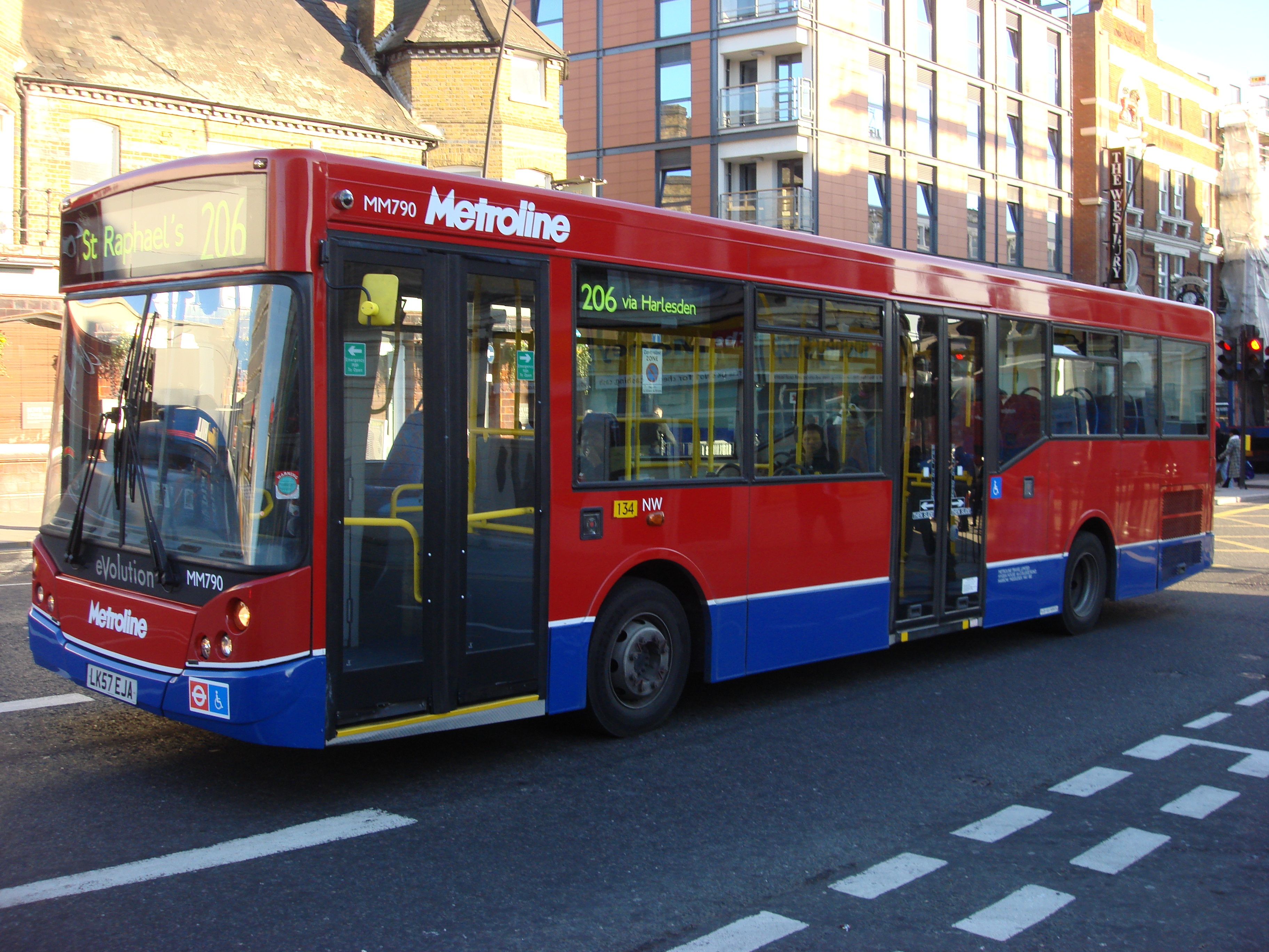 A MAN (chassis) MCV Evolution (body) bus (MM790) on London Buses route 206 on Kilburn High Road.